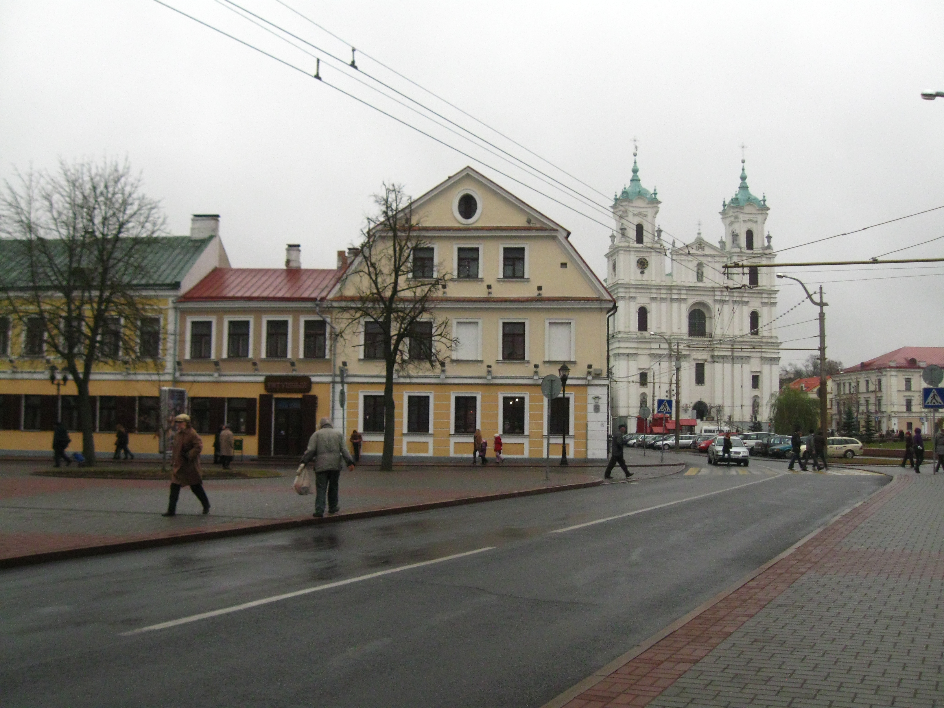 Harodnia - Central SquareБеларуская (тарашкевіца): Горадня - Цэнтральны пляц